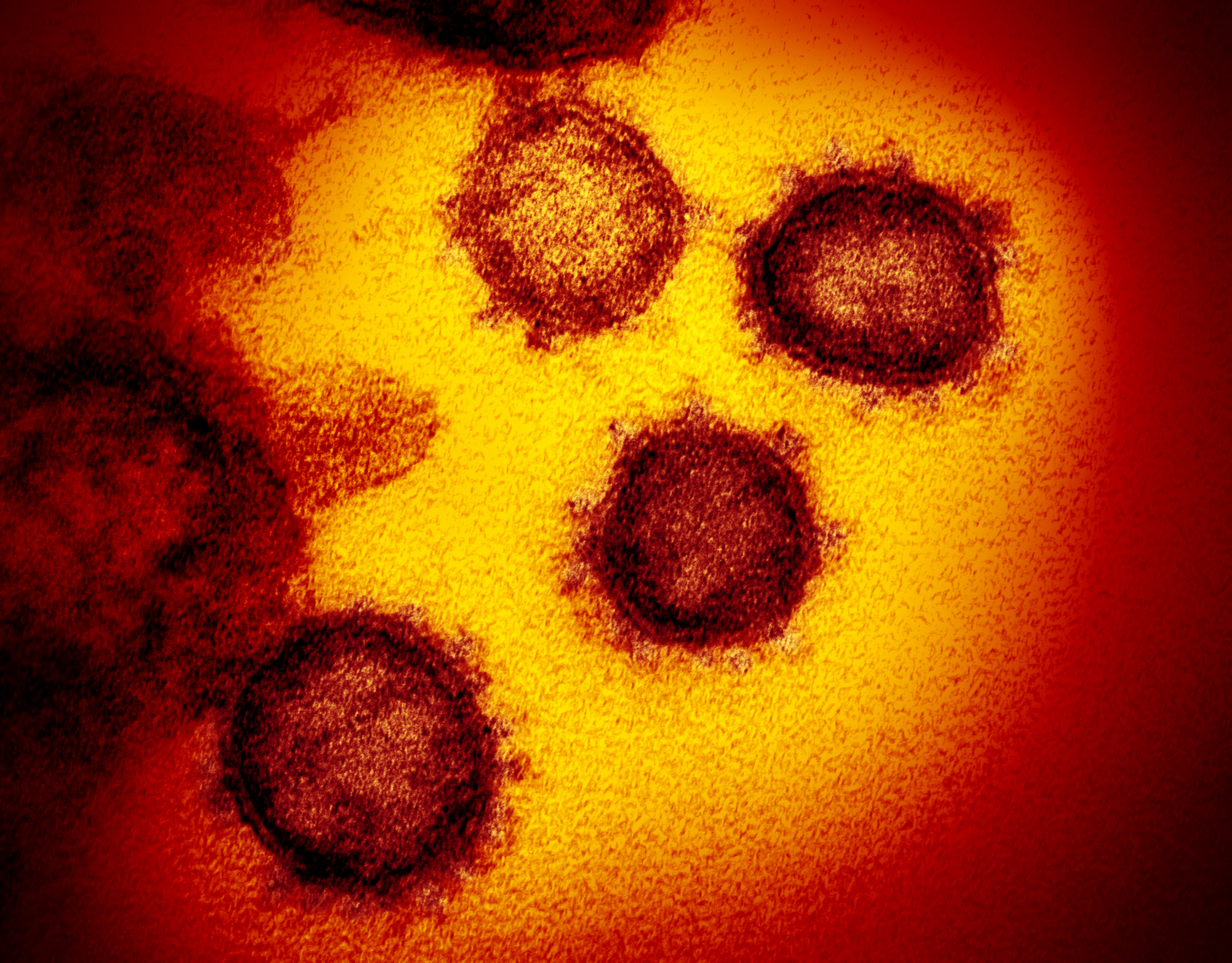 Novel Coronavirus SARS-CoV-2 This transmission electron microscope image shows SARS-CoV-2—also known as 2019-nCoV, the virus that causes COVID-19. isolated from a patient in the U.S., emerging from the surface of cells cultured in the lab. Credit: NIAID-RML